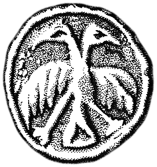 Symbol Duchy of Tver